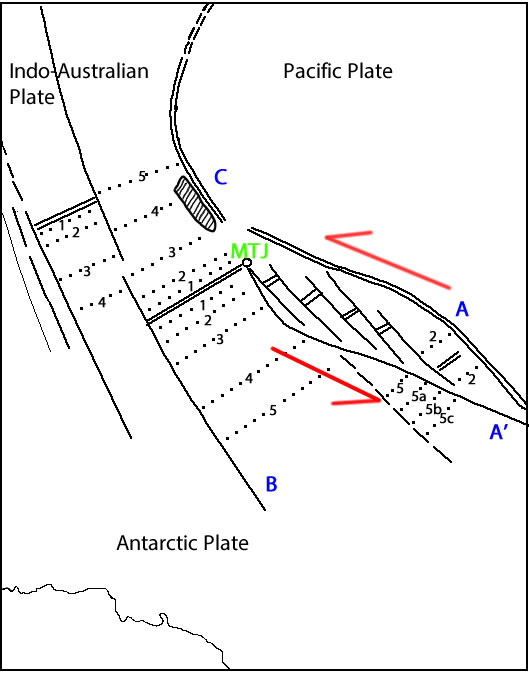 This complex triple junction portrays the three most common oceanic tectonic boundaries: A Mid-Oceanic Ridge between the Indo-Australian Plate and the Antarctic Plate, the Njort Trench between the Indo-Australian Plate and the Pacific Plate, and a transform strike-slip fault along the western most portion fo the Pacific-Antarctic Ridge.